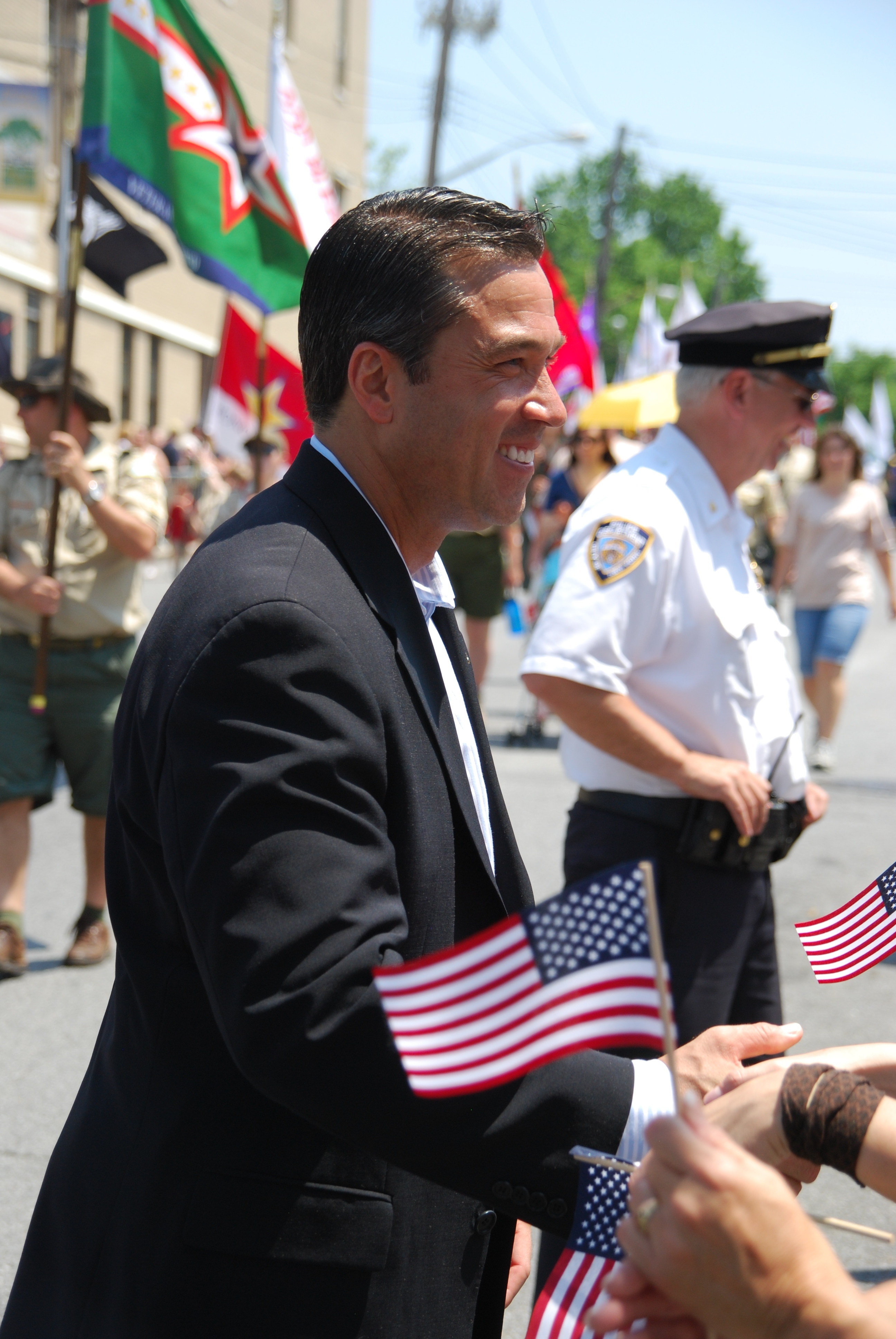 Rep. Michael Grimm (R, NY-11 CD) greets spectators at a Memorial Day parade on Staten Island.